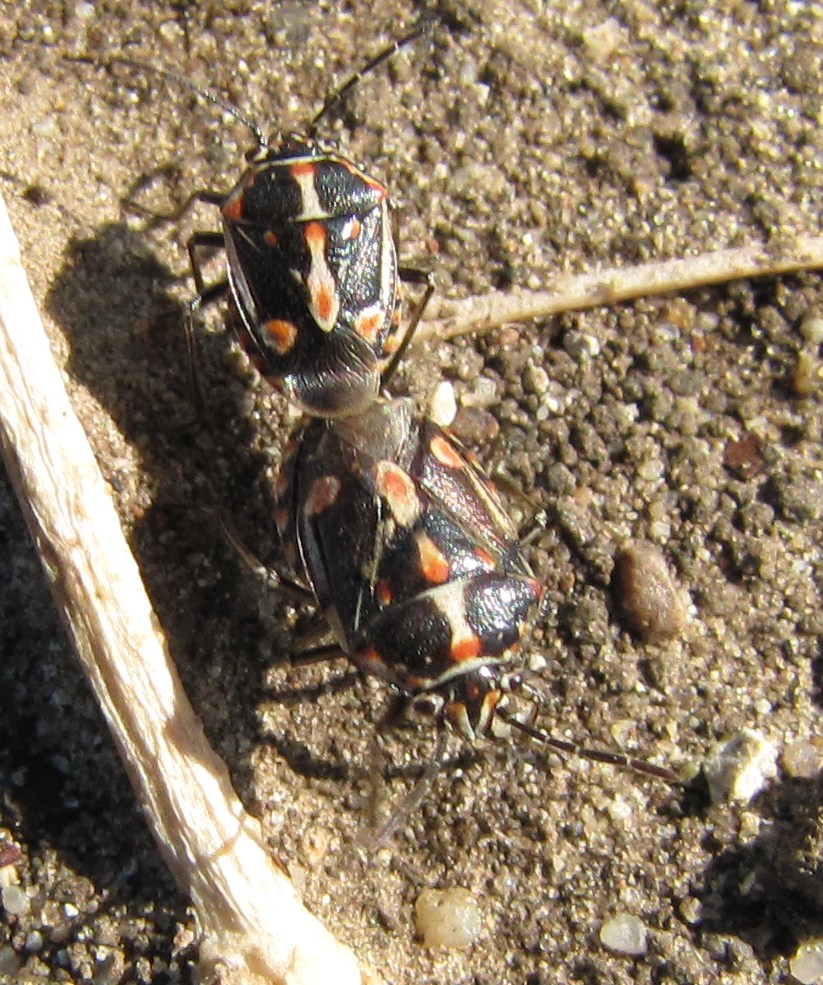 Bagrada hilaris - Bagrada bug Identification: Location:Ralph B. Clark Park, Buena Park, CA Comment: More than a hundred bugs (adults, mated pairs and nymphs were found scrambling around on the ground after a rain over an area that covered a few hundred square feet.